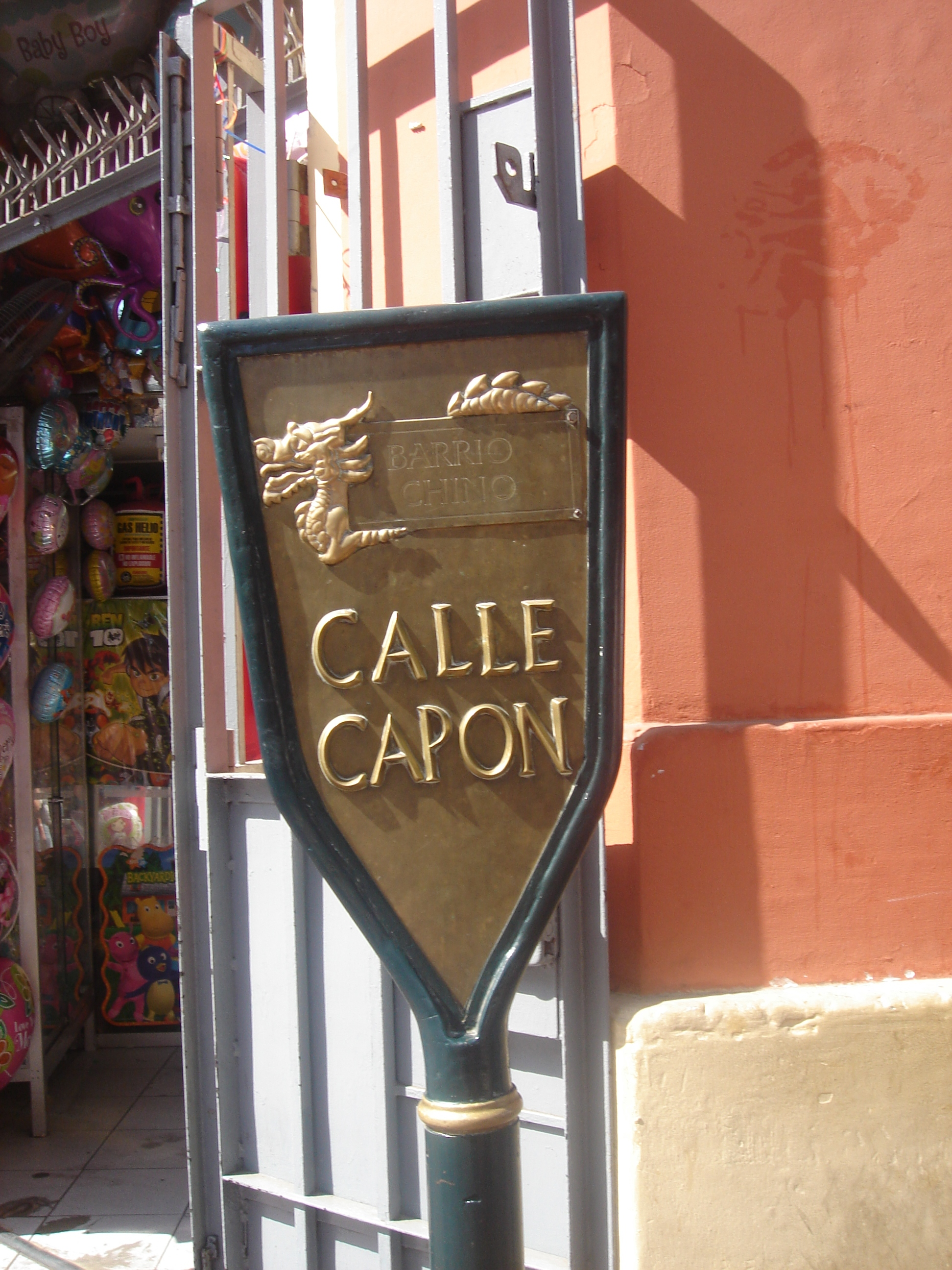 Capon Street - Plaque Chinatown, Lima